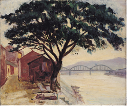 Name of the artwork: Early Morning At San Hsia Author: Li Mei-shu Time: 1959 Paint by: oil paint, canvas Location: Li Mei-shu Memorial Gallery